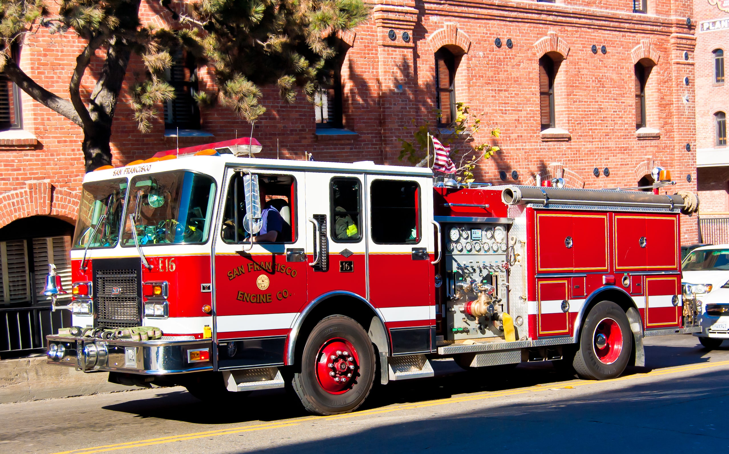 San Francisco Fire Truck, California. We appreciate usage of this photo including for commercial purposes while keeping ‘do-follow’ link to and putting ‘ ’ as the author’s name.